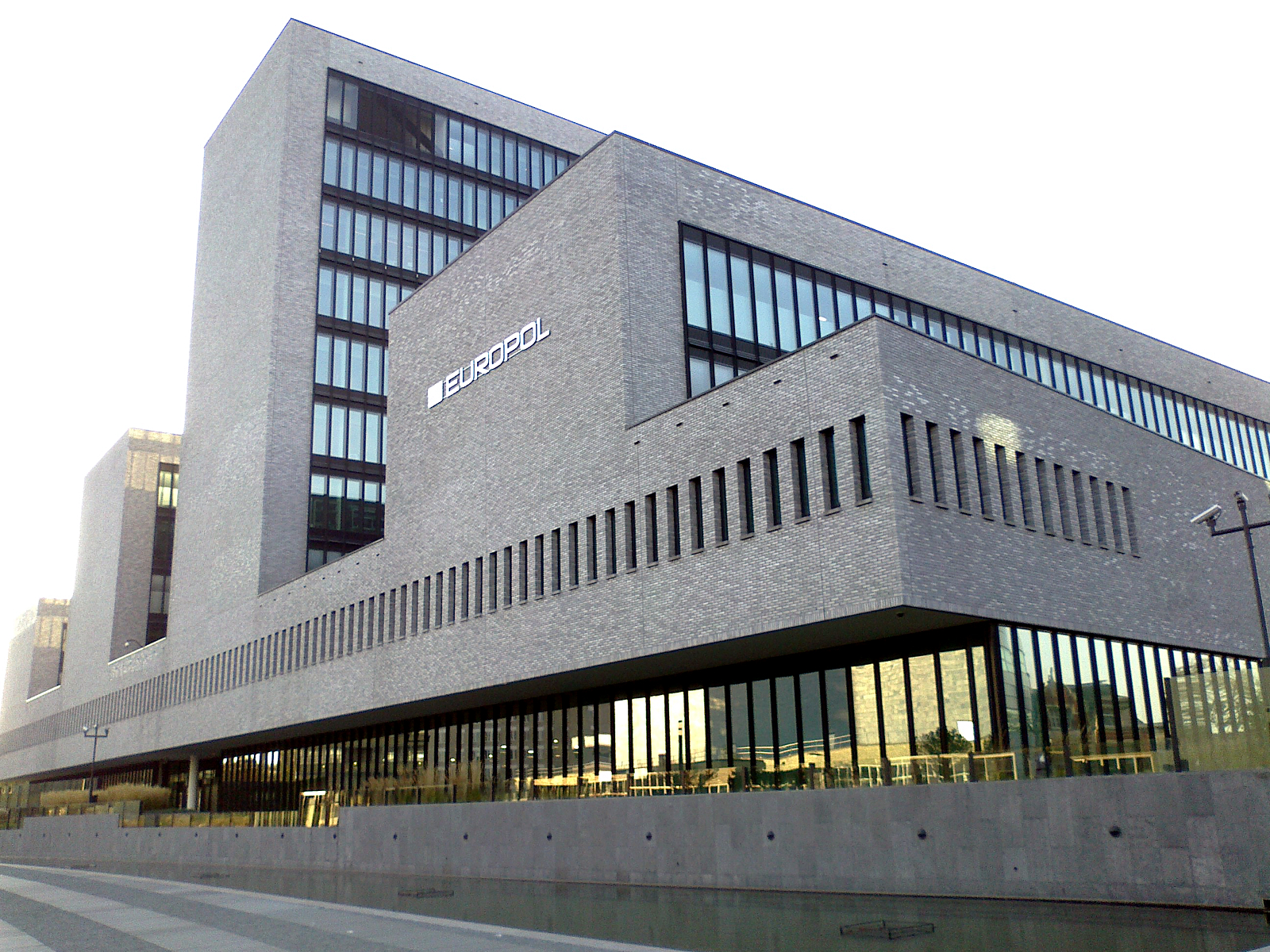 Europol building, The Hague, the Netherlands, is the headquarters of Europol, a European organization, in which national police forces cooperate, similar to Interpol.